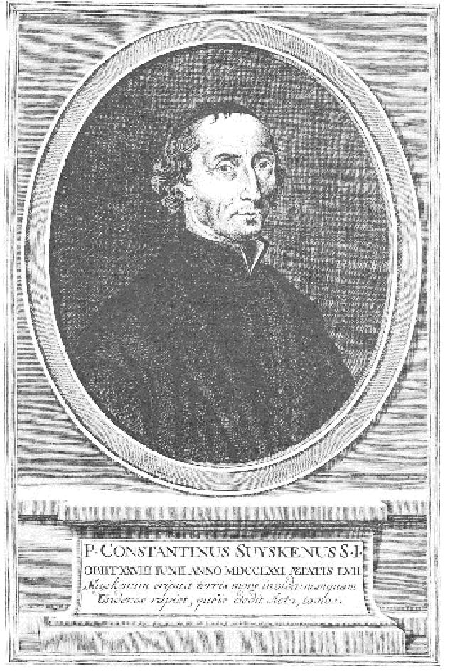 Constantin Suysken (1714-1771), Bollandist und Jesuit aus Brabant